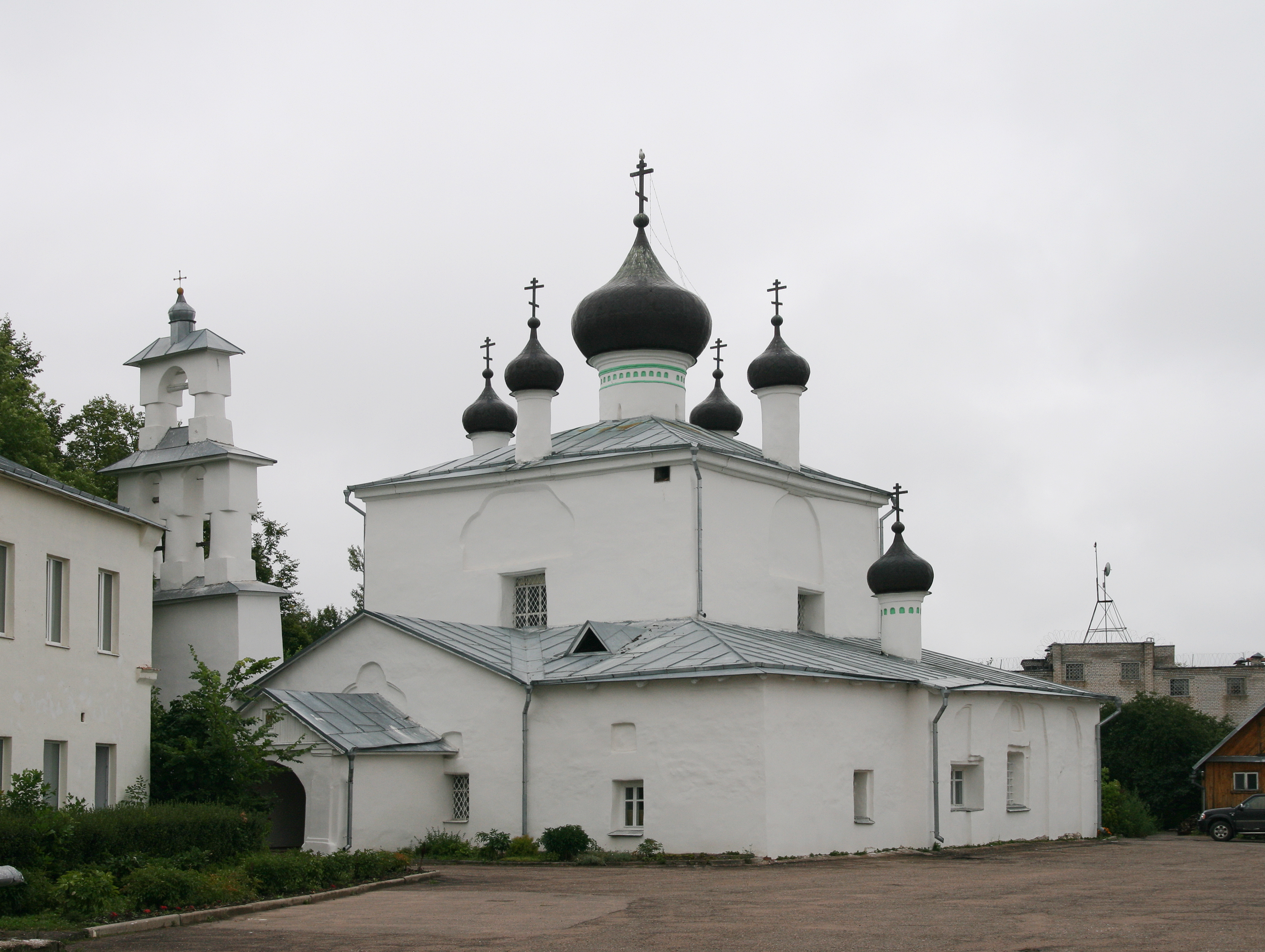 Saint Nicholas church ot Torga, 1676, Pskov